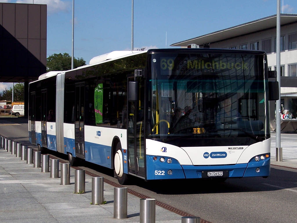 Neoplan Centroliner Evolution N 4522 (#522, reg. ZH 726522, built 2003) of Verkehrsbetriebe Zürich (VBZ), Zürich, Switzerland on the ETH campus at Hönggerberg.